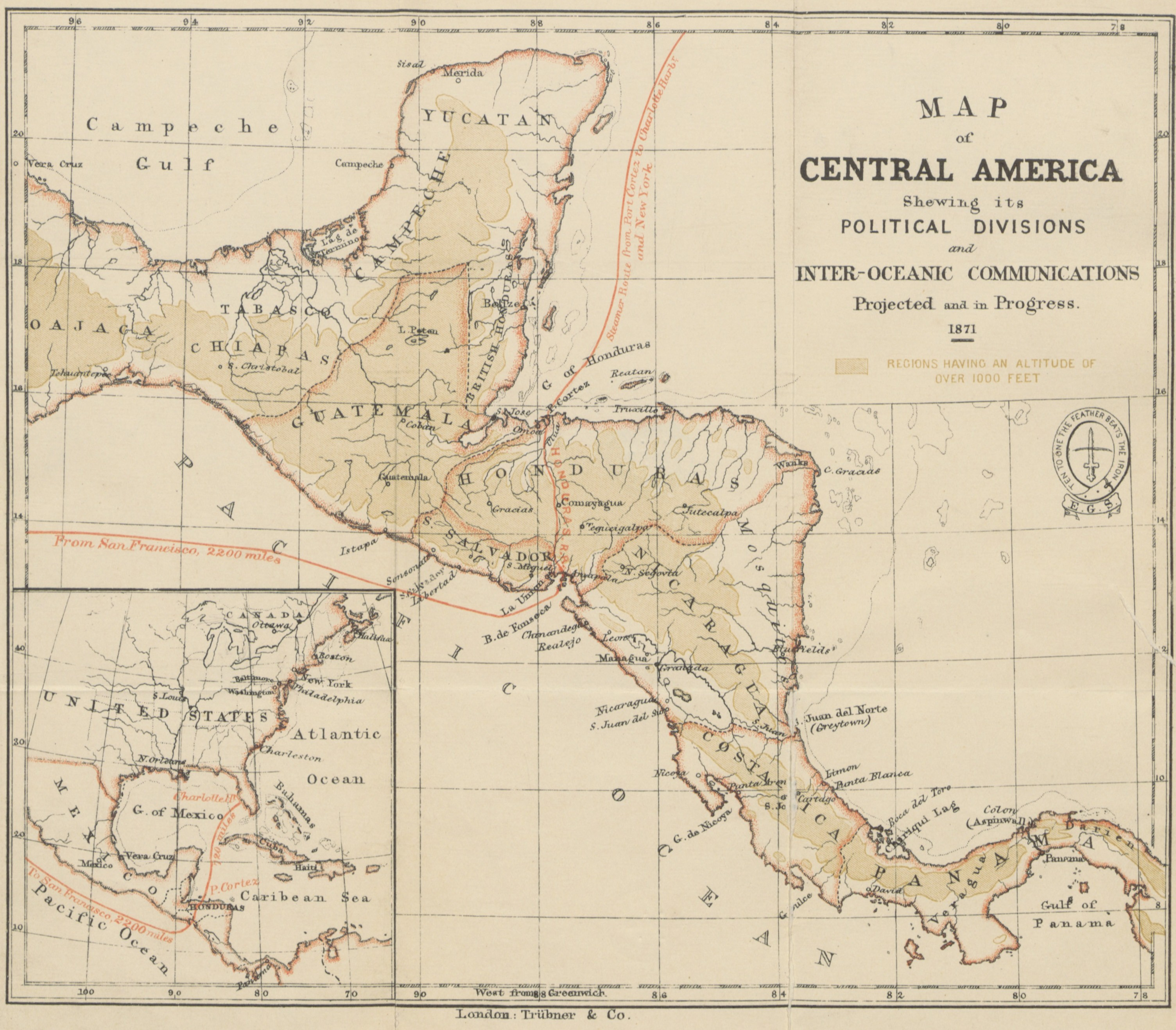 Map of Central America taken from page 8 of Honduras: descriptive, historical, and statistical (British Library HMNTS 10481.pp.2), being a reprint of the chapters on Honduras contained in the book The States of Central America